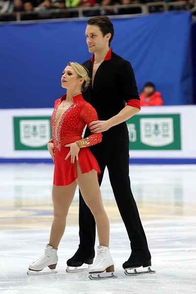 Kirsten Moore-Towers and Michael Marinaro at the 2017 Cup of China.